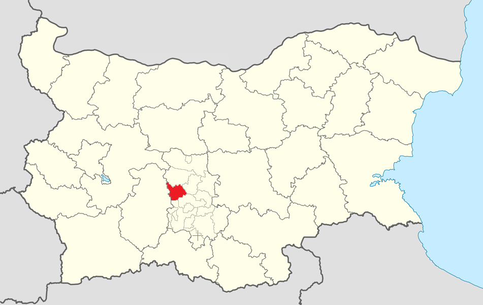 Location map of Saedinenie Municipality within Bulgaria and Plovdiv province